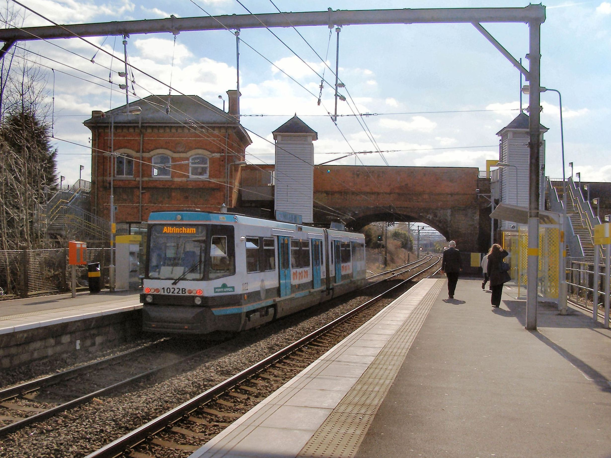 Timperley Station. Looking towards Altrincham. The bridge at the end of the platform carries Park Road over the tramway.